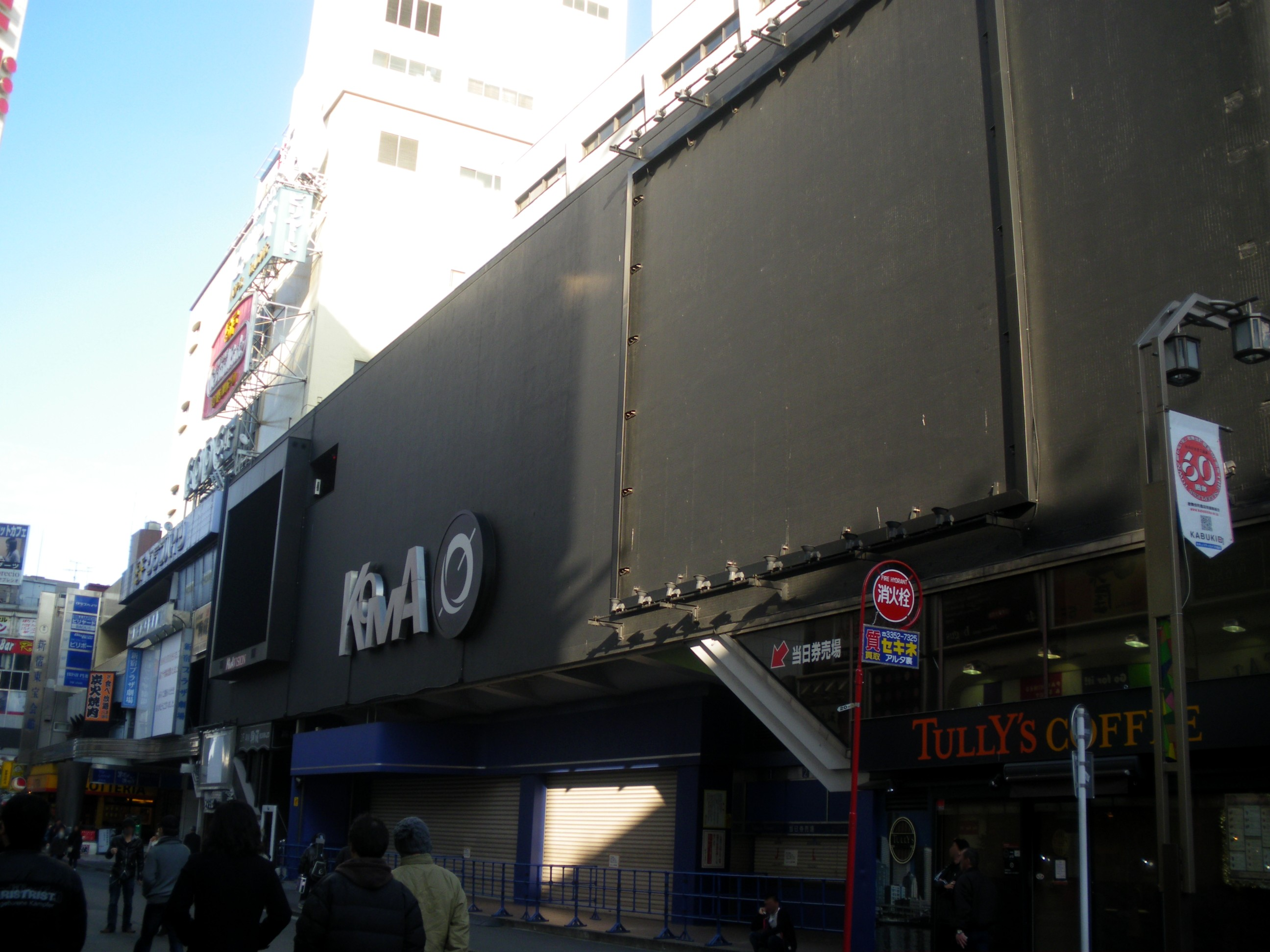 A photo of Shinjuku Koma Studium, a famous theater in Shinjuku. This theater was closed due to antiquated equipment on December 31, 2008.